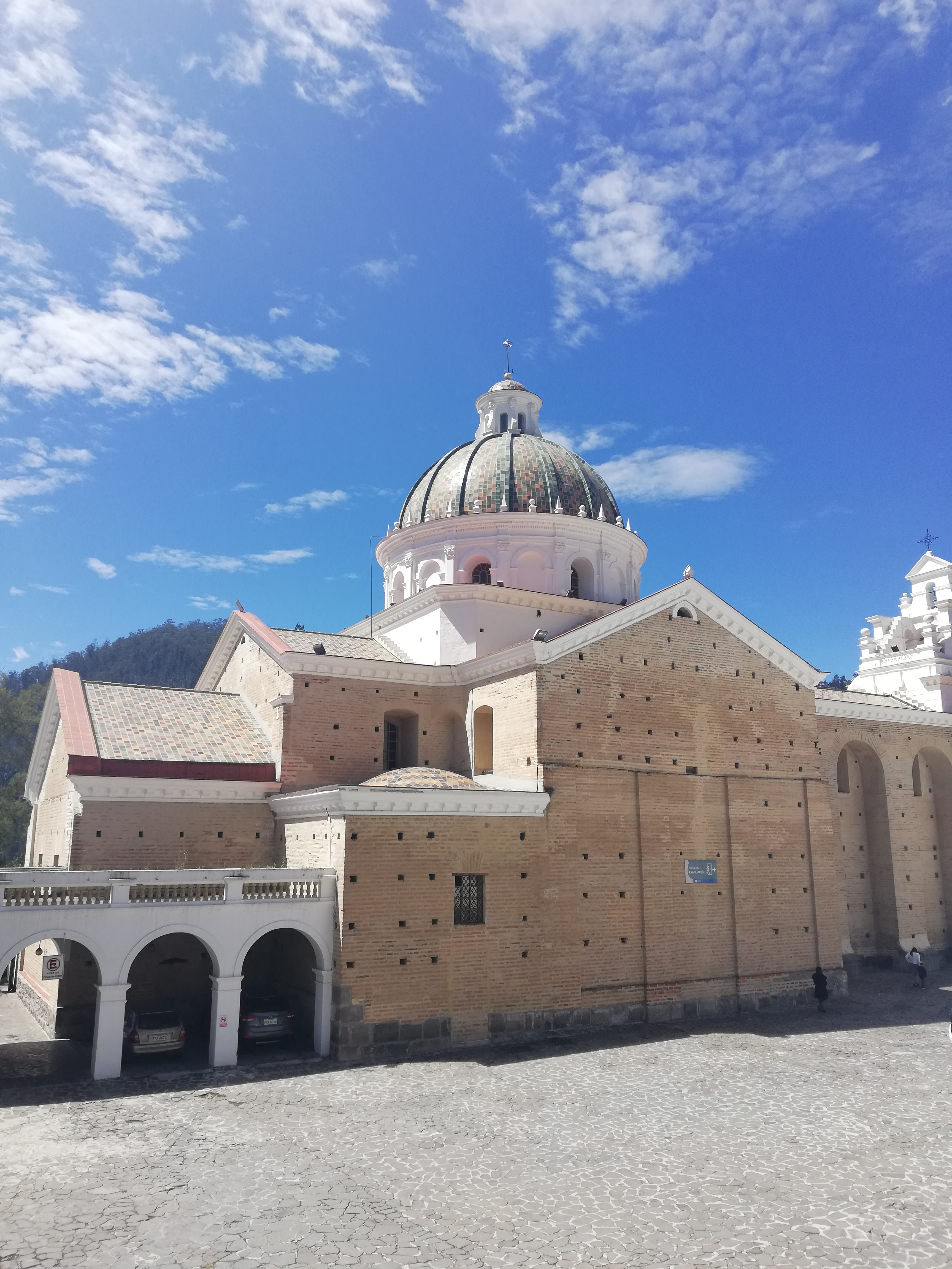 Church Guapulo Ecuador